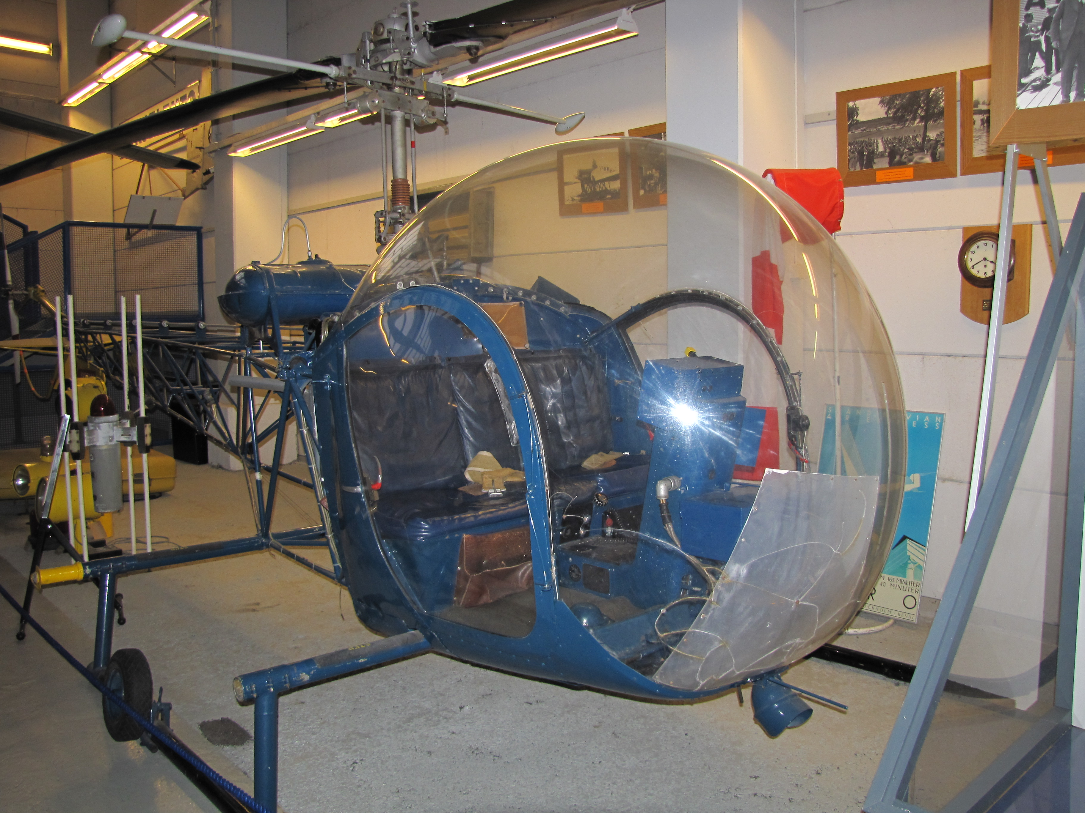 Bell 47 D-1 helicopter in Finnish Aviation Museum. This was the first helicopter in Finland, purchased in 1953 jointly by Finnish Air Force and Imatran Voima Ltd. From 1957 used solely by Imatran Voima, last flight in 1976.